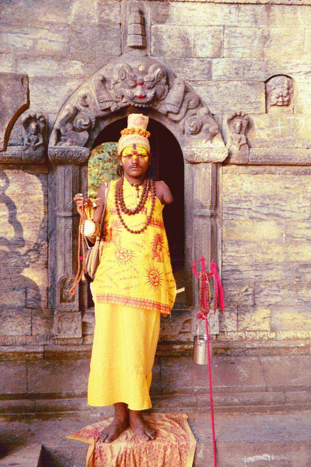 Sadhu in a Hindu temple, Kathmandu, Nepal.